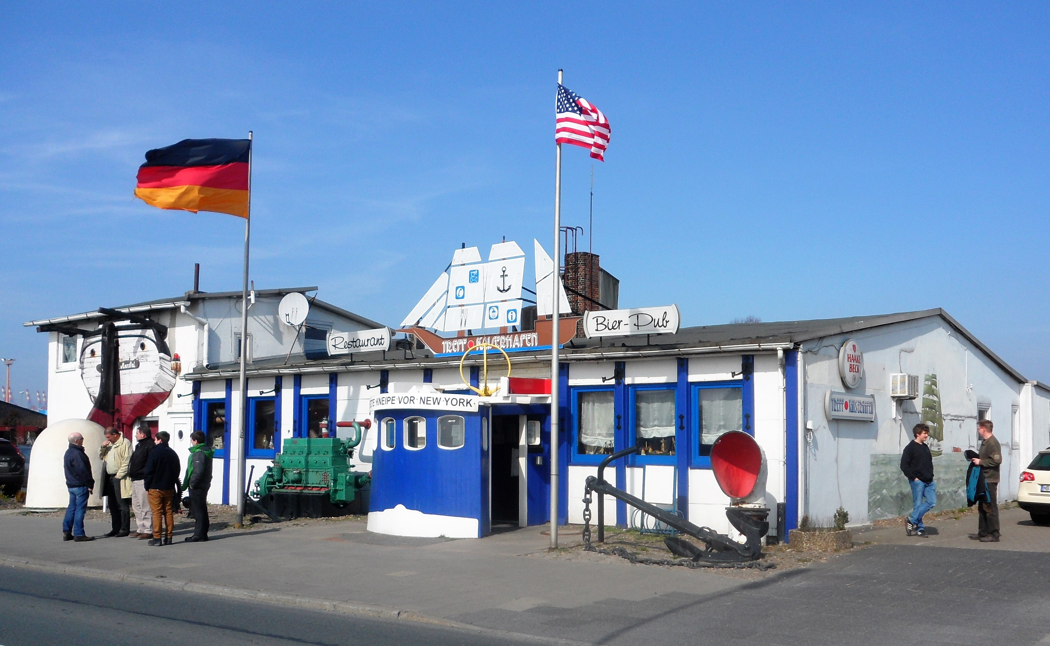 The pub Treffpunkt Kaiserhafen in the harbour of Bremerhaven.